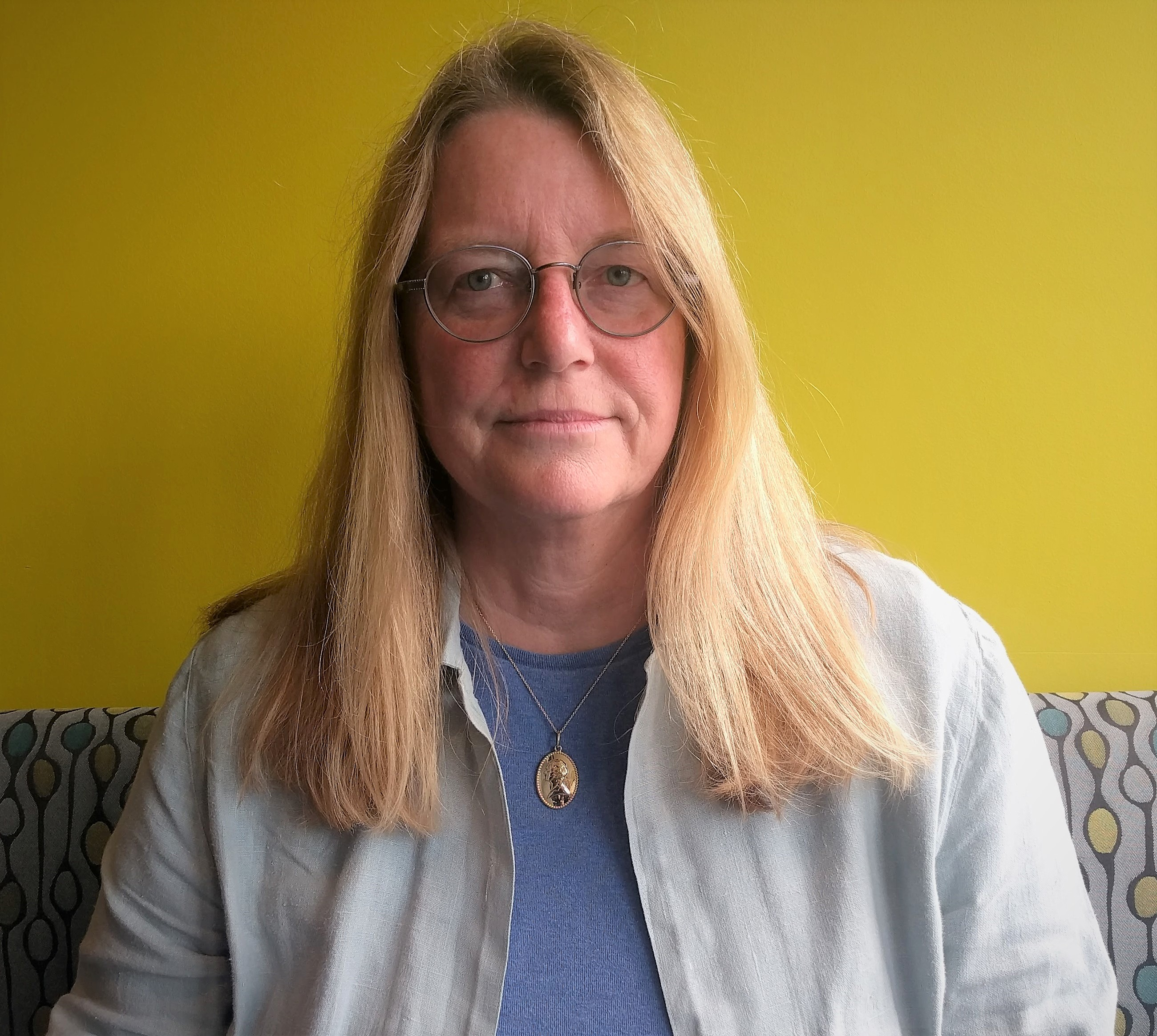 Rebecca Moore, founder of Google Earth Outreach and Google Earth Engine, at the Google offices in Cambridge, Massachusetts, May 19, 2016. She is wearing her National Audubon Society Rachel Carson Award medal.